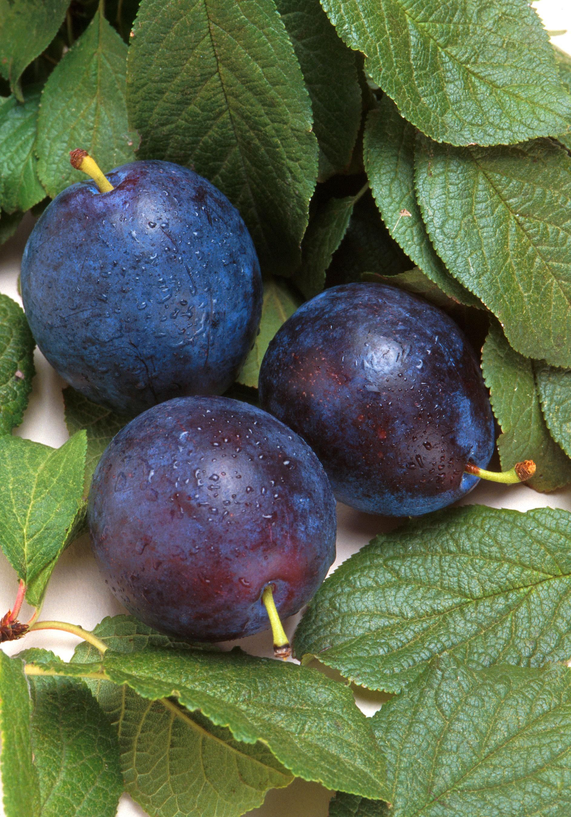 Image title: Bluebyrd plum Image from Public domain images website